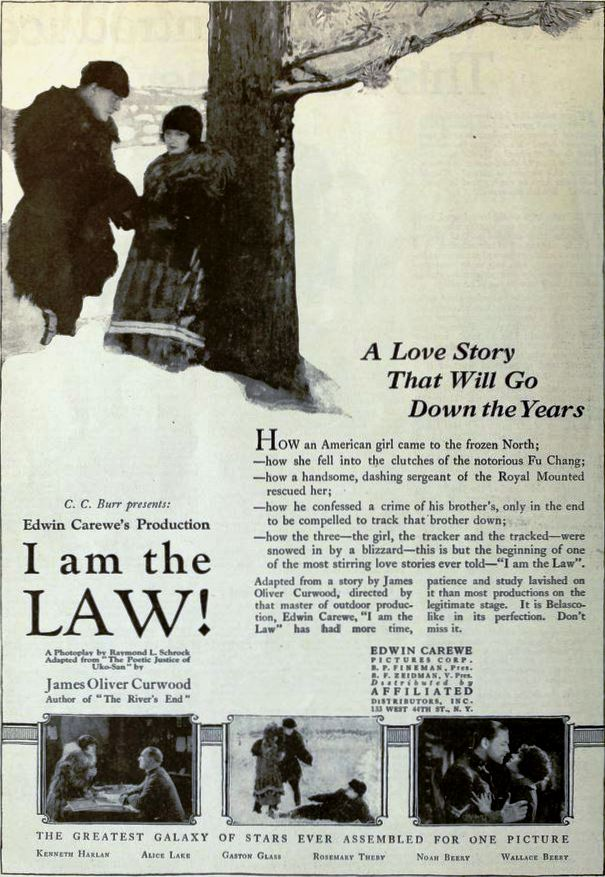 Advertisement for the American drama film I Am the Law (1922) with Kenneth Harlan and Alice Lake, on page 8 of the June 1922 Photoplay Magazine.